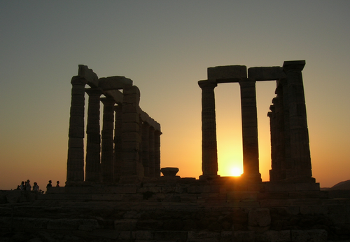 Sunset at temple of Poseidon at Sounio, Greece